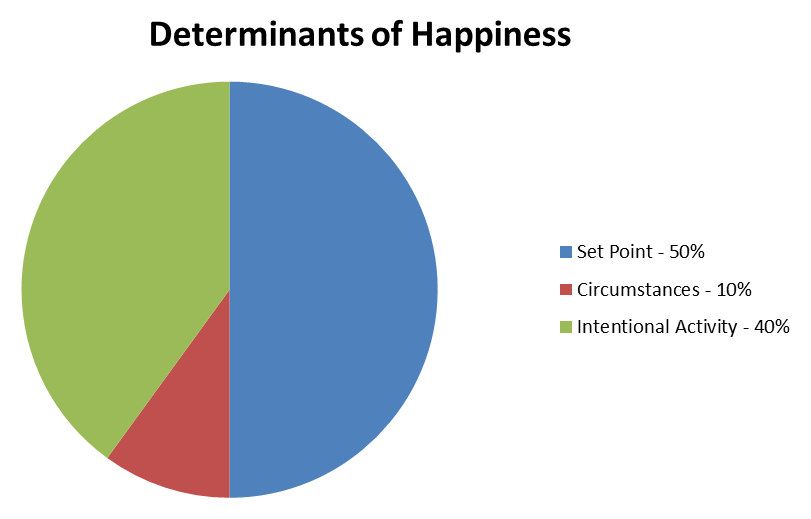 This is a Pie chart of the determinants of happiness (with percentages) based on Sonja Lyubomirsky's book